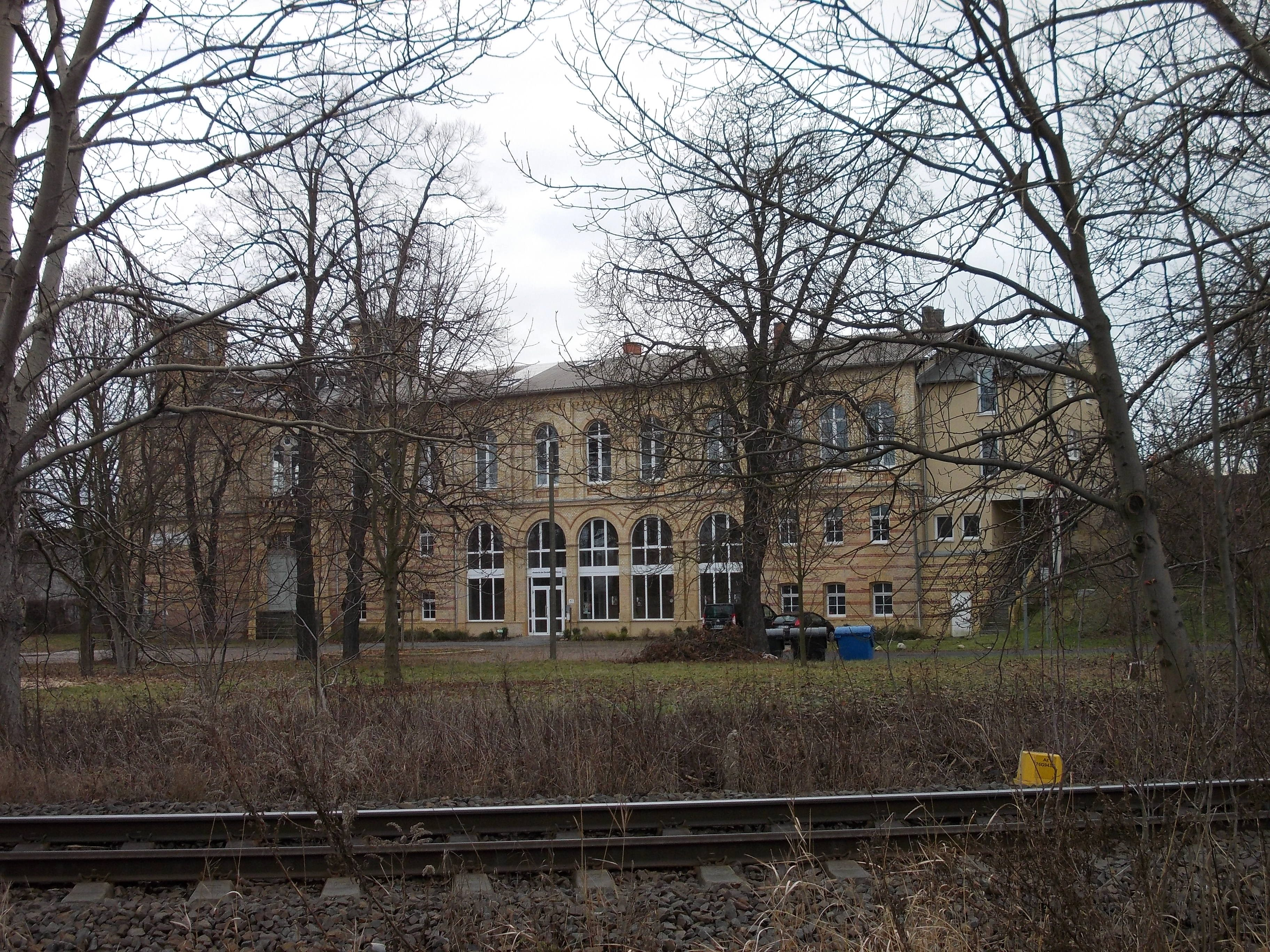 Station building of the upper train station in Delitzsch (Nordsachsen district, Saxony)